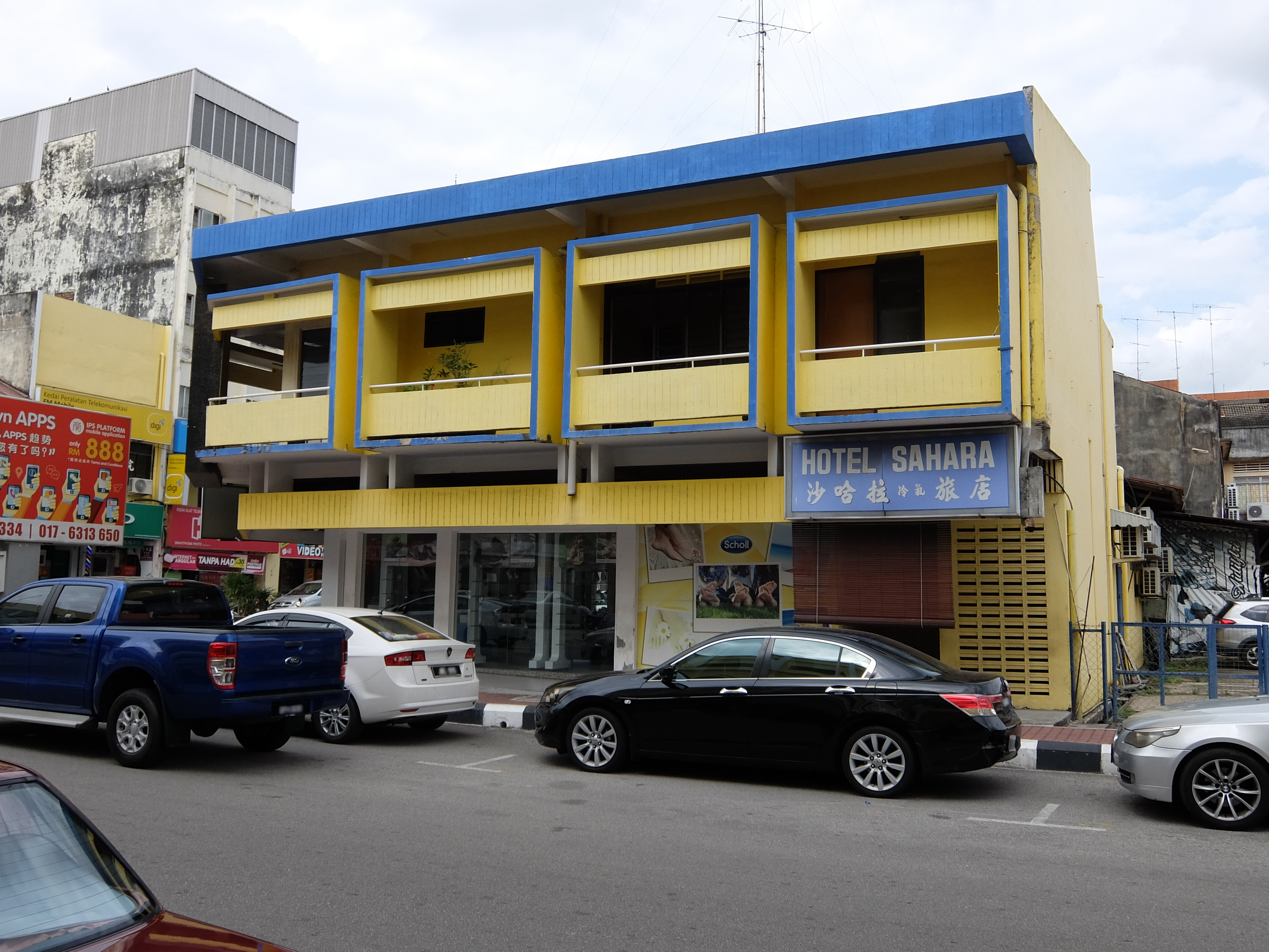 Sahara Hotel, Bandar Maharani, Muar, Johor, Malaysia